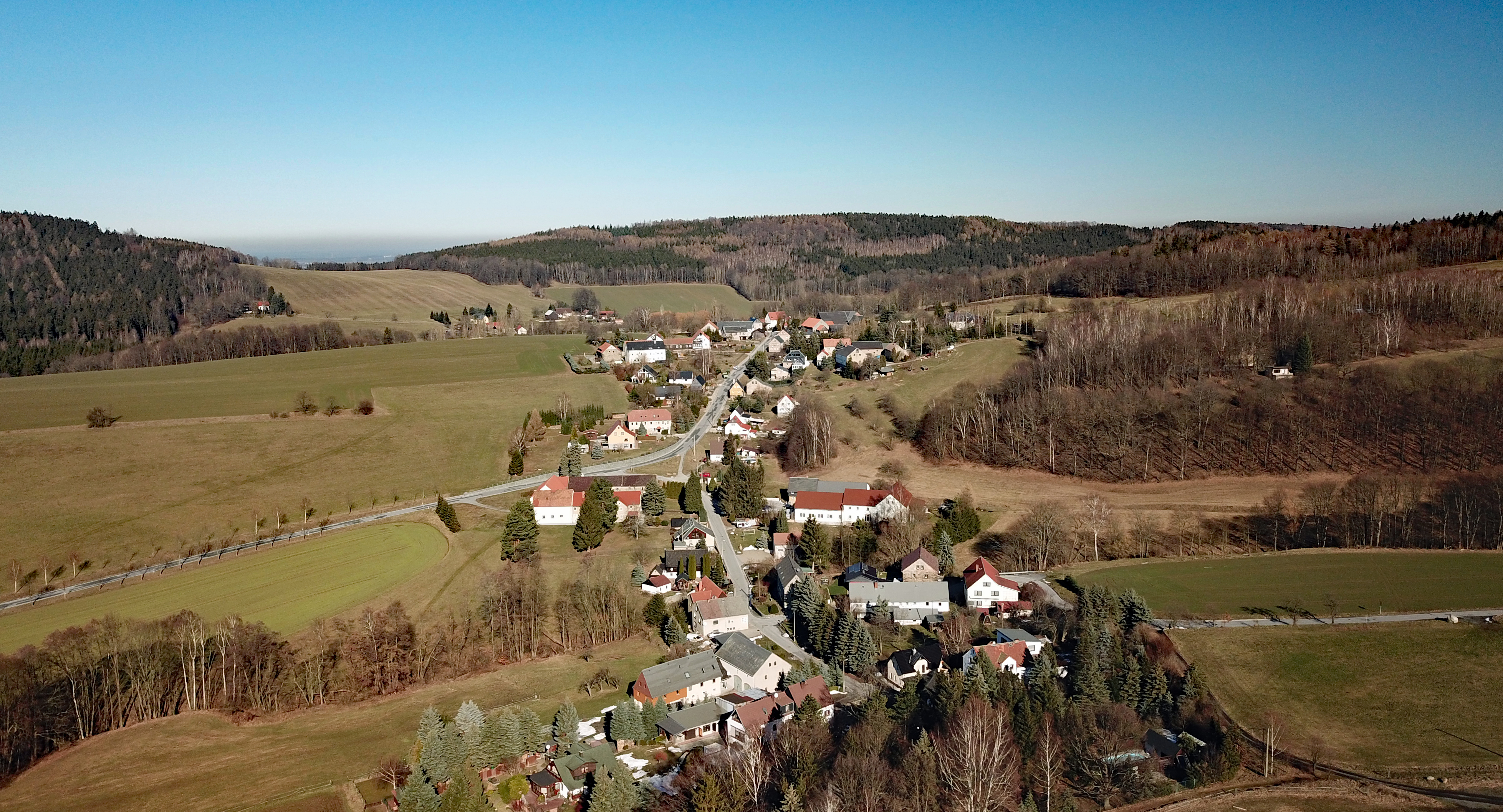 Cosul, Großpostwitz, Saxony, Germany Hornjoserbsce: Powětrowy wobraz Kózłow pola Budestec